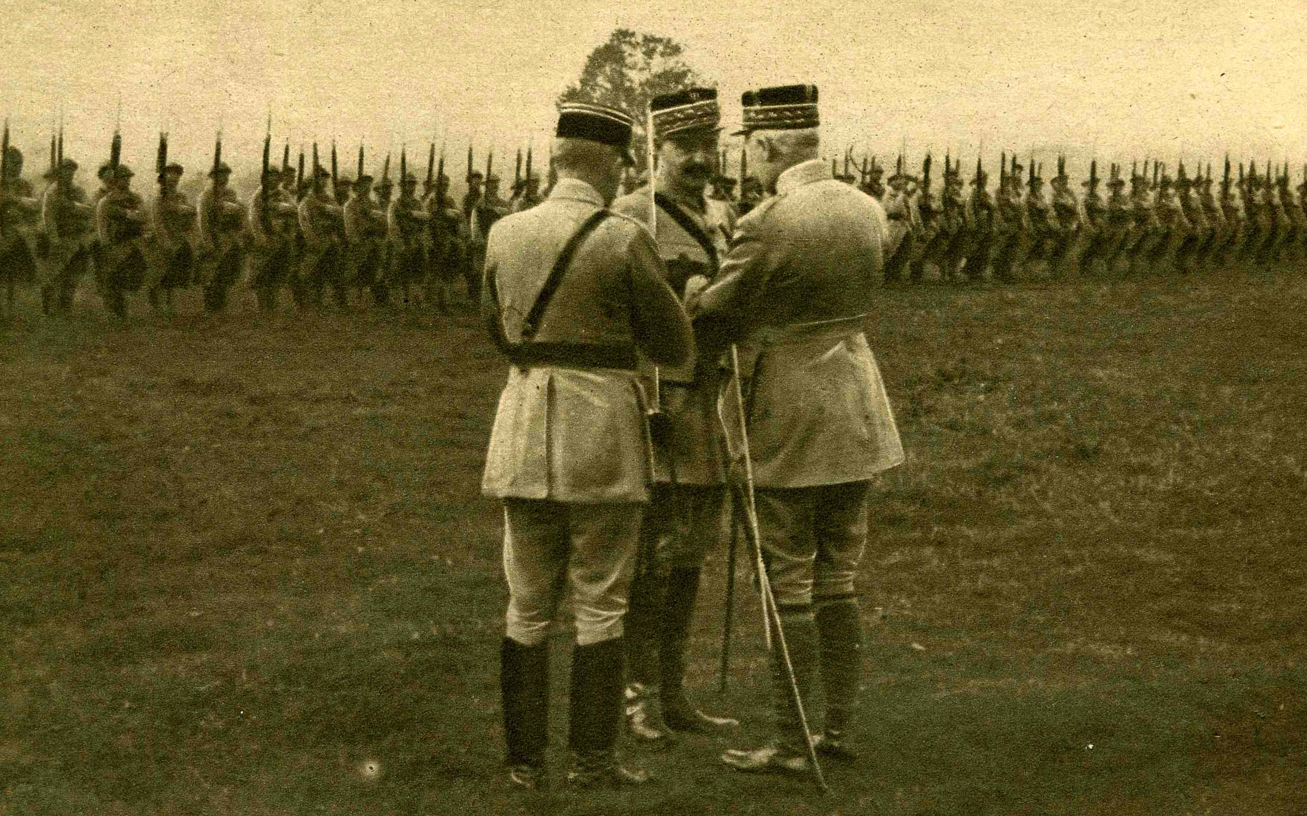 French general Marie-Eugène Debeney